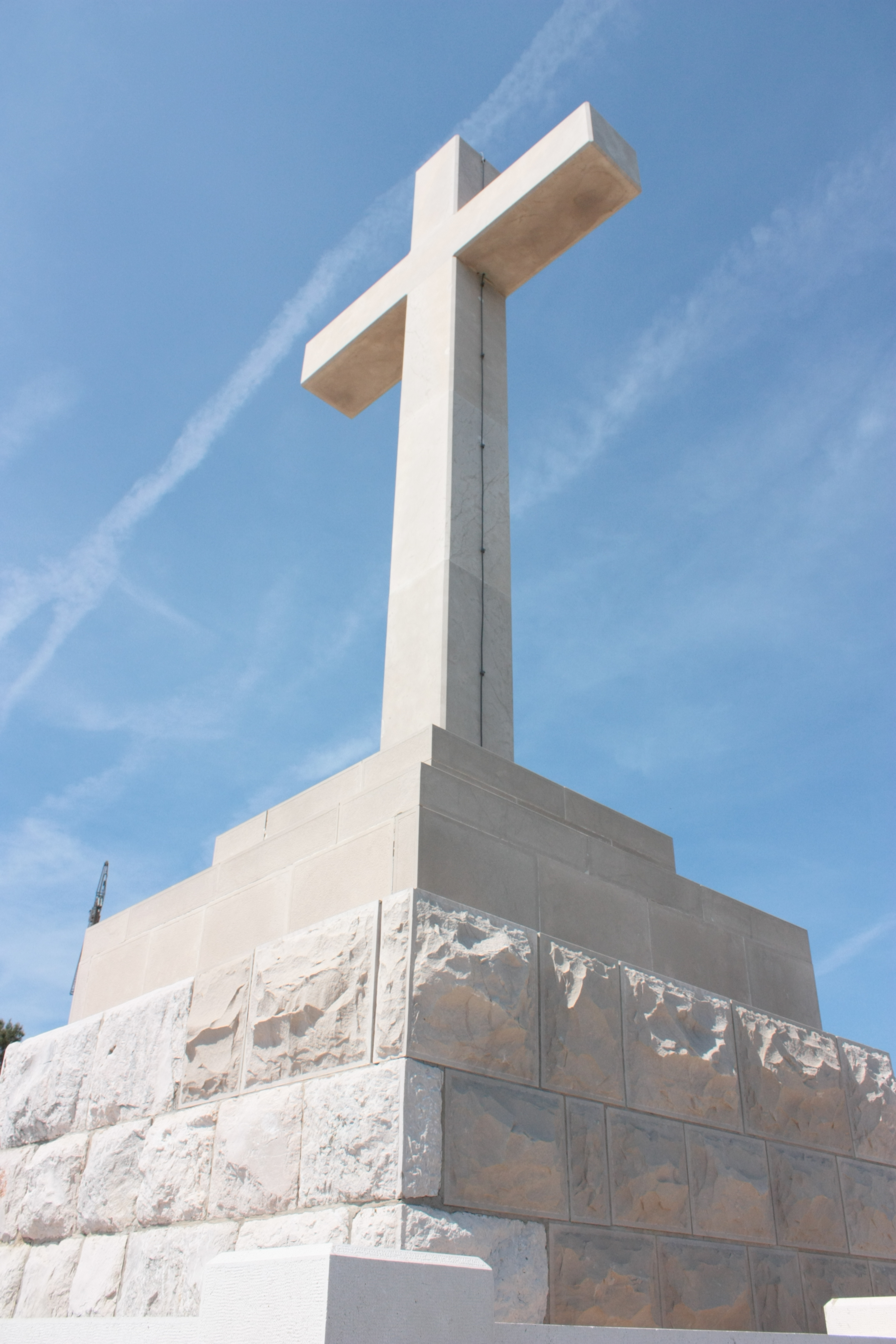 Cross on the hill Srđ above Dubrovnik